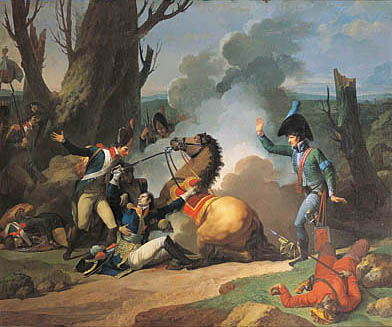 Fatal injuries general Valhubert at the Battle of Austerlitz